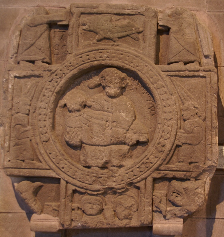 Brechin Cathedral, Brechin, Angus, Scotland - Mary Stone